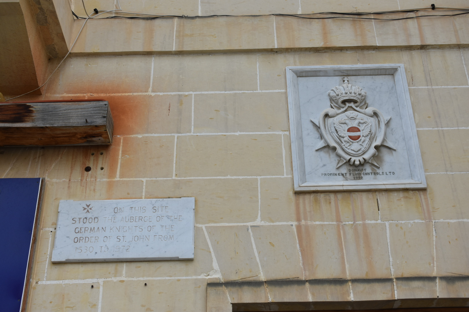 Auberge d' Allemagne This media is about Maltese cultural property with inventory number 01159.